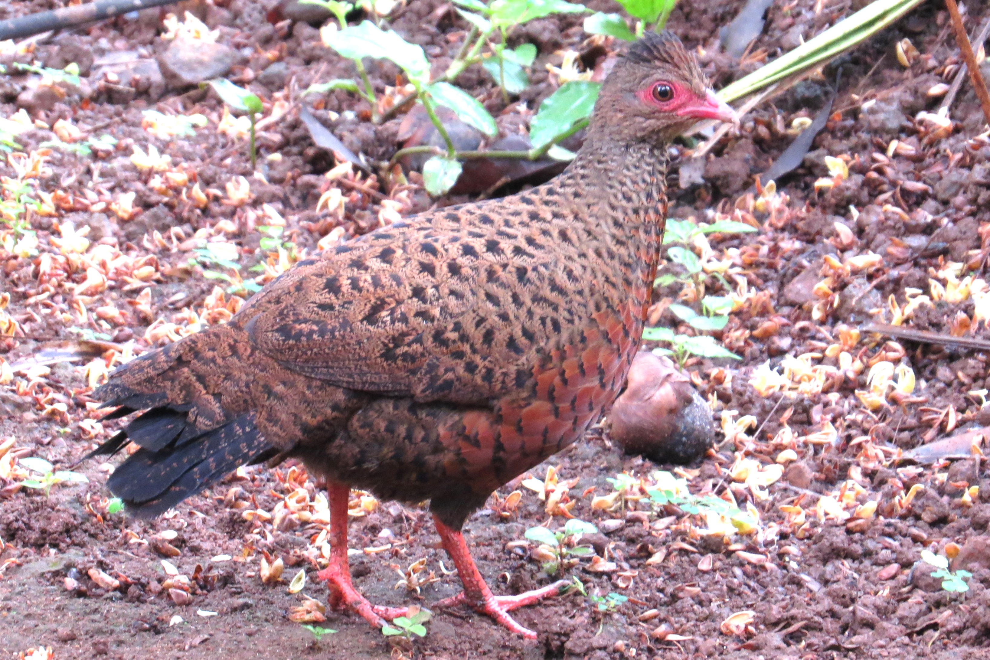 Red Spurfowl Galloperdix spadicea stewarti female in Myannur, Thrissur, India